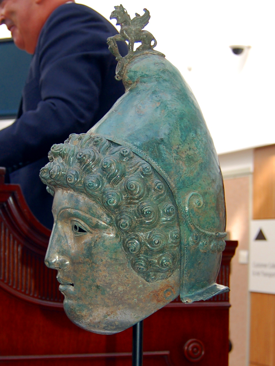 The Crosby Garrett Helmet is a copper alloy Roman helmet dating to the late 1st to mid 3rd century AD. It was found by an unnamed metal detectorist near Crosby Garrett in Cumbria, England in May 2010, close to a Roman road, but a distance from any recorded Roman settlements. Photo by Daniel Pett